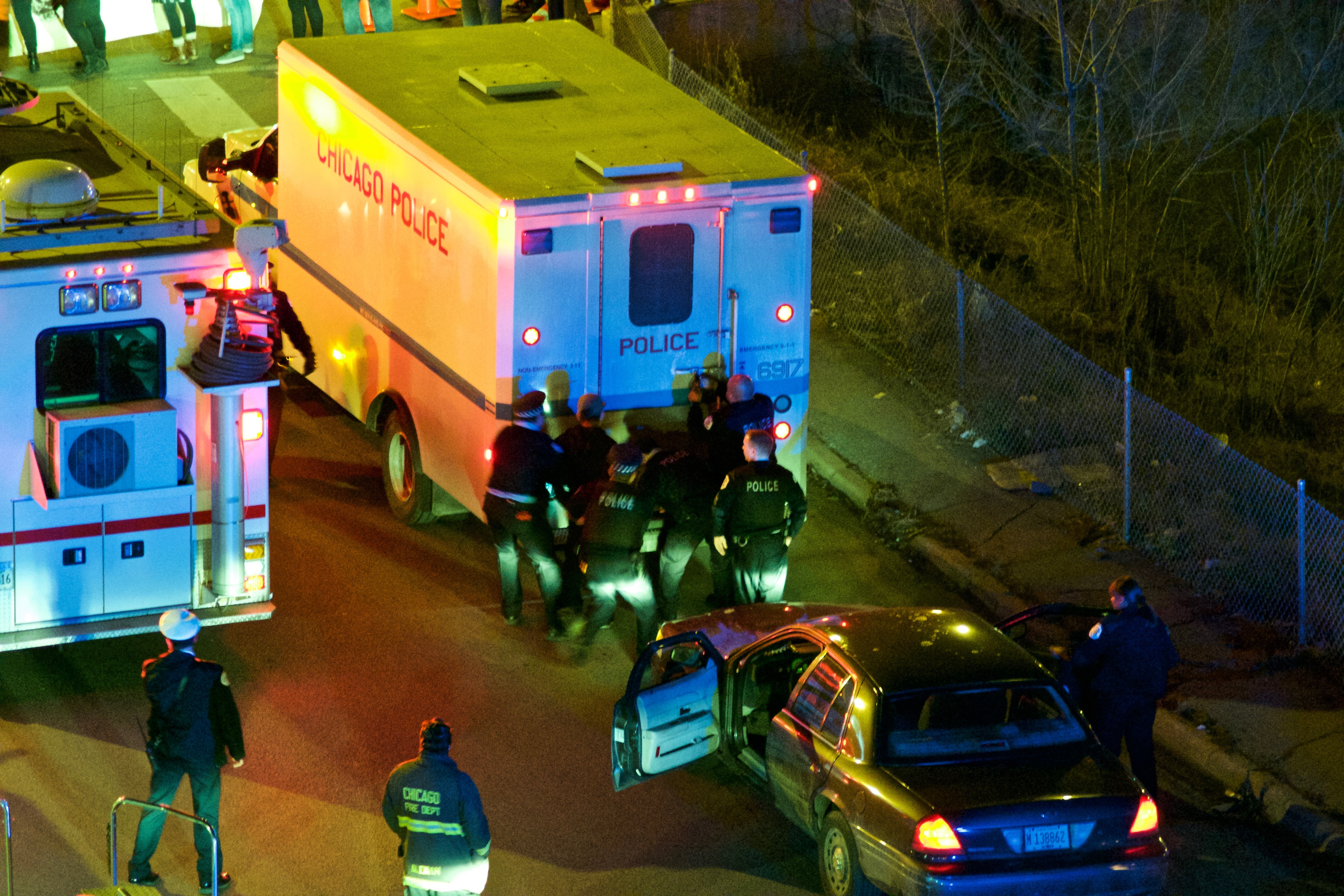 According to the news, no one was arrested at Trump's rally/protest, but a few people made it inside the paddy wagon so...